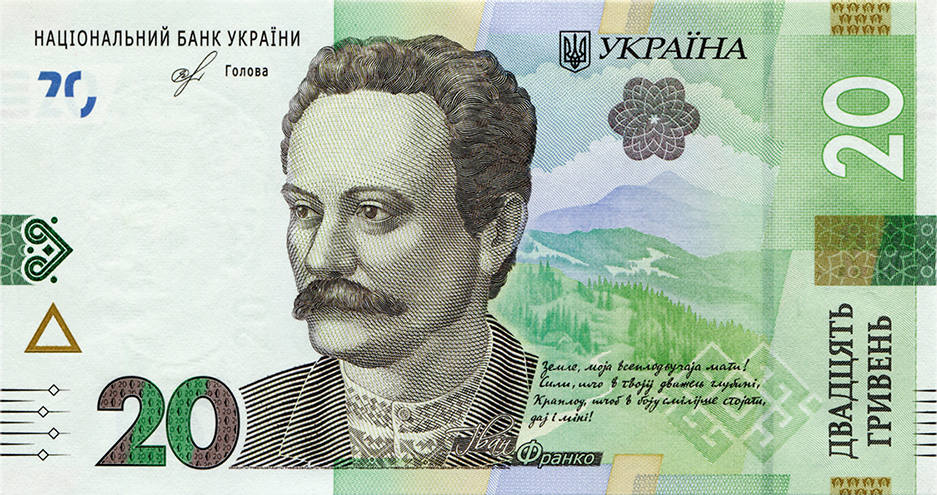 20 Ukrainian hryvnias, 2018.